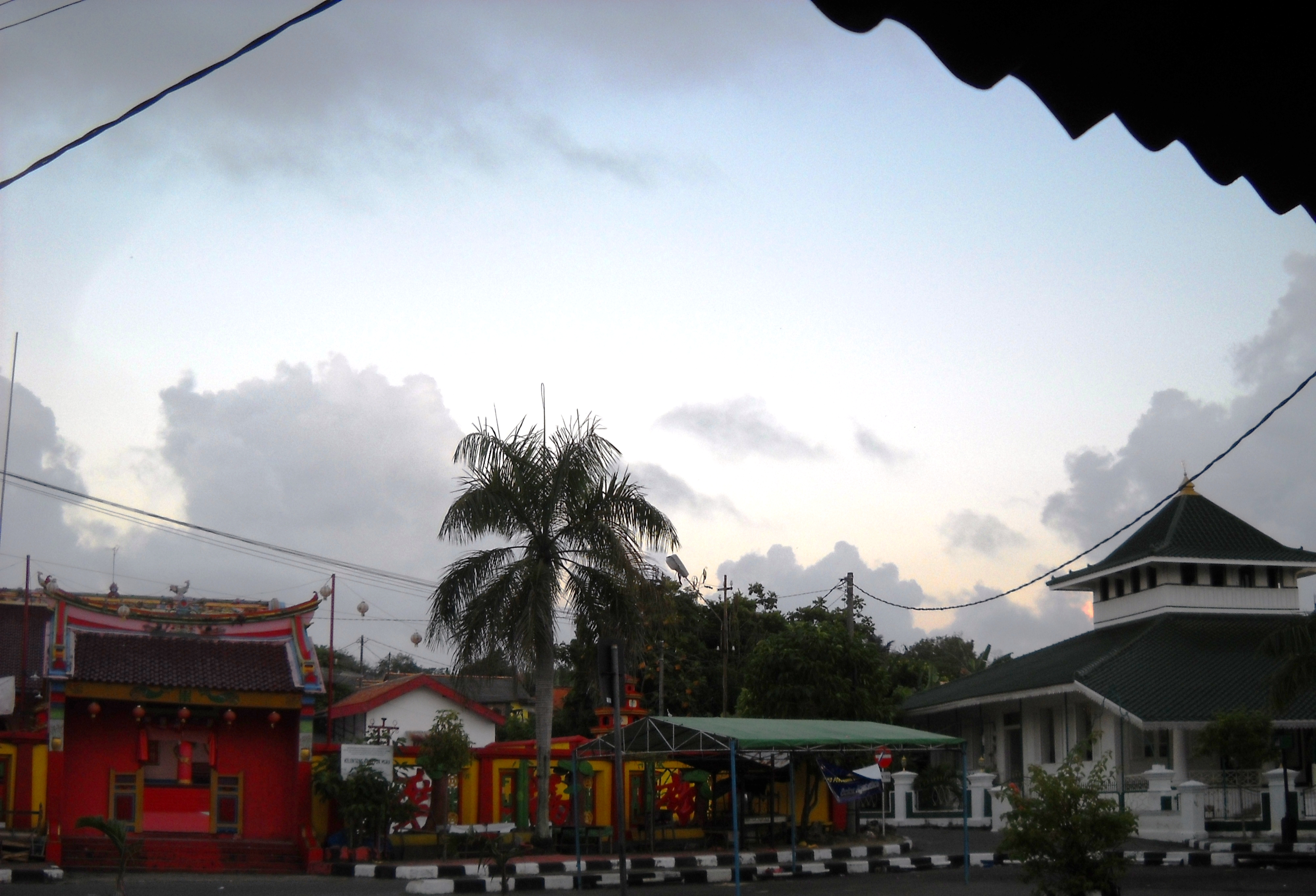 Kong-fuk-miau Temple and Jami Mosque side by side in Mentok, Bangka Island. Kong Fuk Miau was established around 1800, while Jami Mosque in 1883.